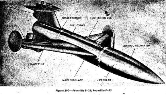 German suface to air Rocket